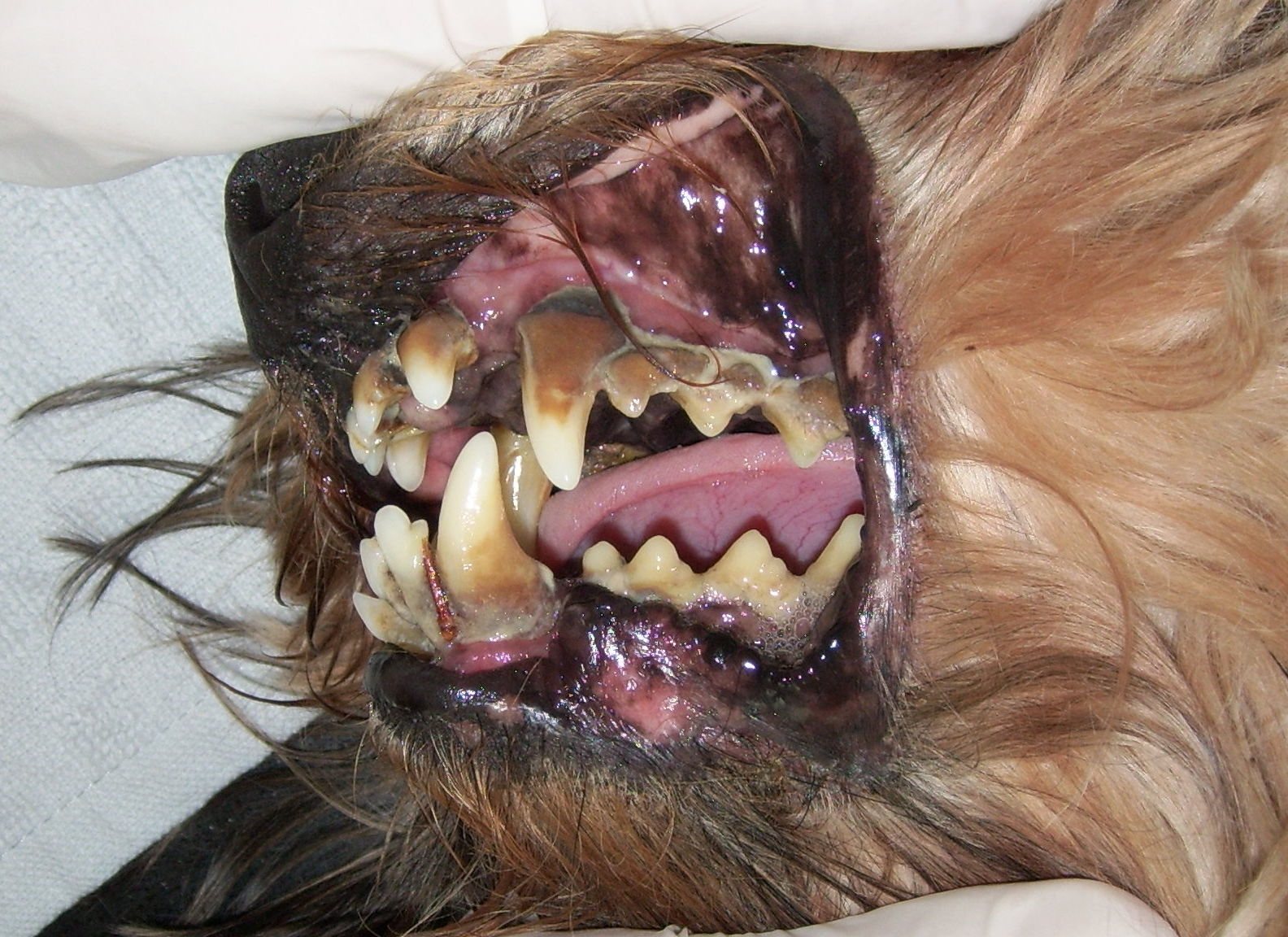 Calculus in a dog